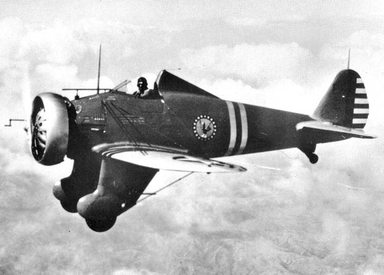 Boeing P-26 of the 19th Pursuit Squadron. Boeing P-26 Peashooters were introduced into the Army Air Corps in 1933. Ungainly and quaint to modern eyes, the P-26 actually represented very advanced technology for its day. It was the Army's first all-metal monoplane fighter, and its 600 hp engine gave it a top speed of 234 mph. The very high headrest concealed a strong arch which protected pilots in the case the airplane should flip over upon landing. Pilots still preferred open cockpits, and the streamlined, fixed wheels were lighter than the mechanism necessary for retracting landing gear with rubber wheels.